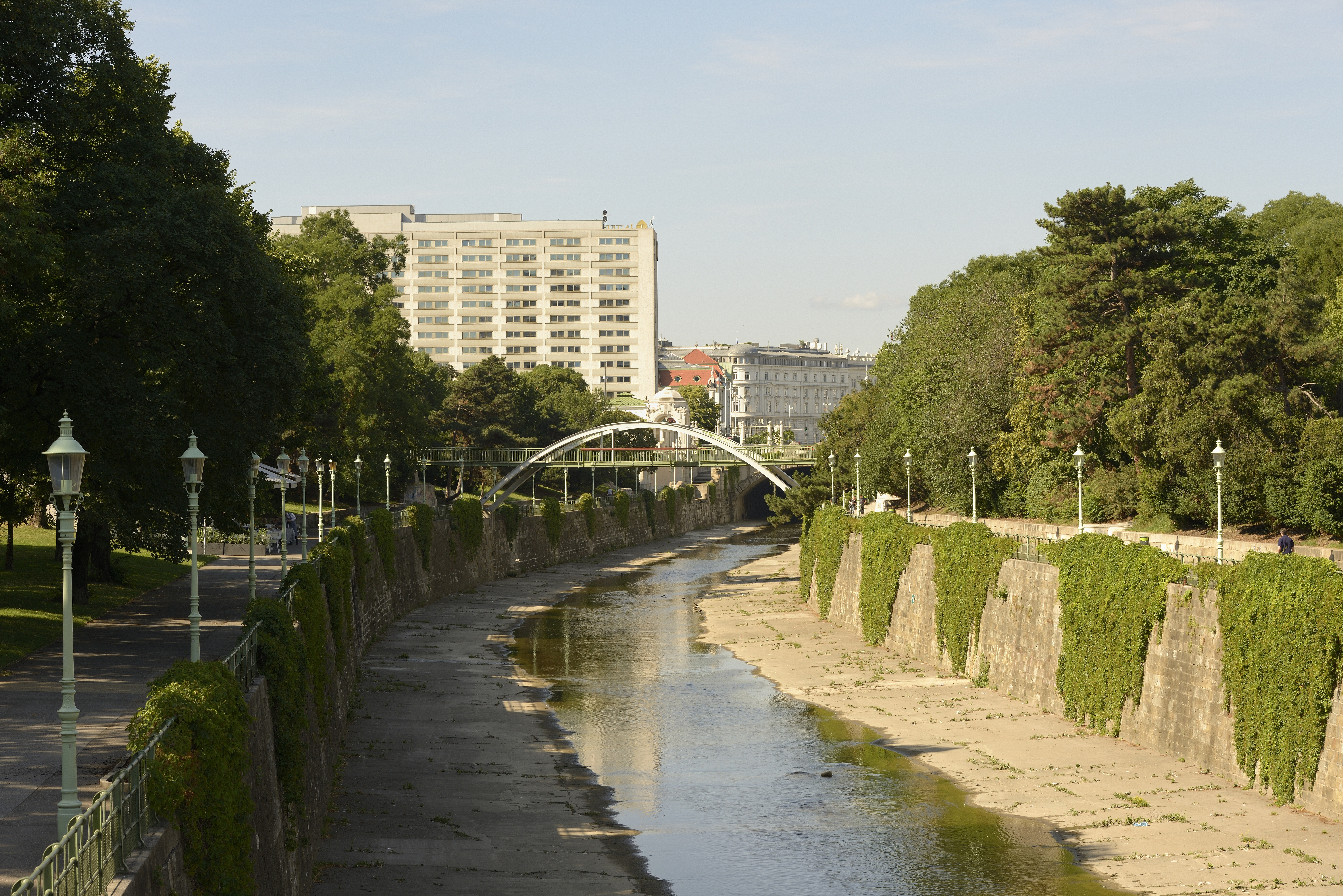 River Wien leaving the tunneled section at Wienfluss-Portal